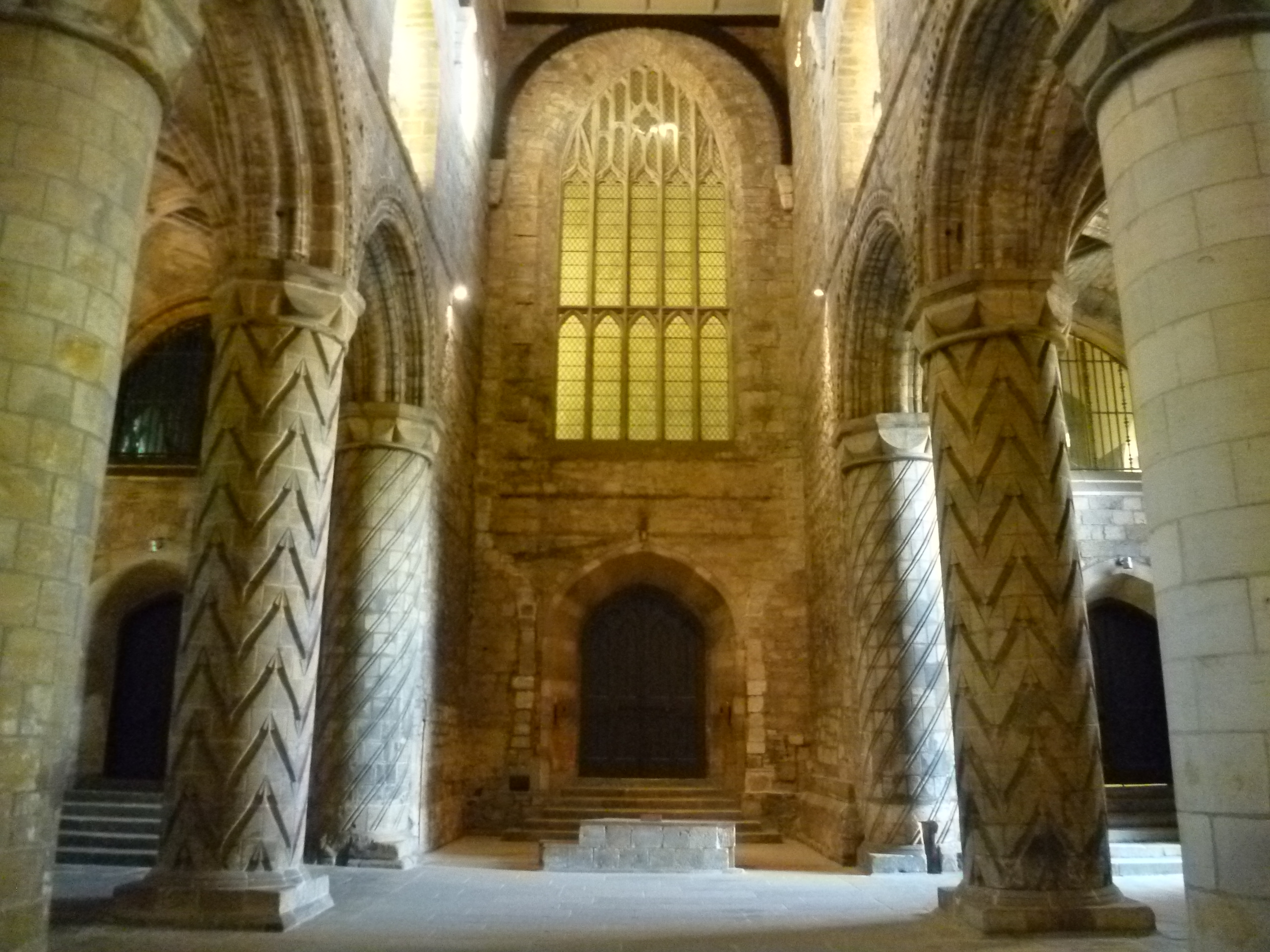 The nave of Dunfermline Abbey from the 12thC reign of King David I.